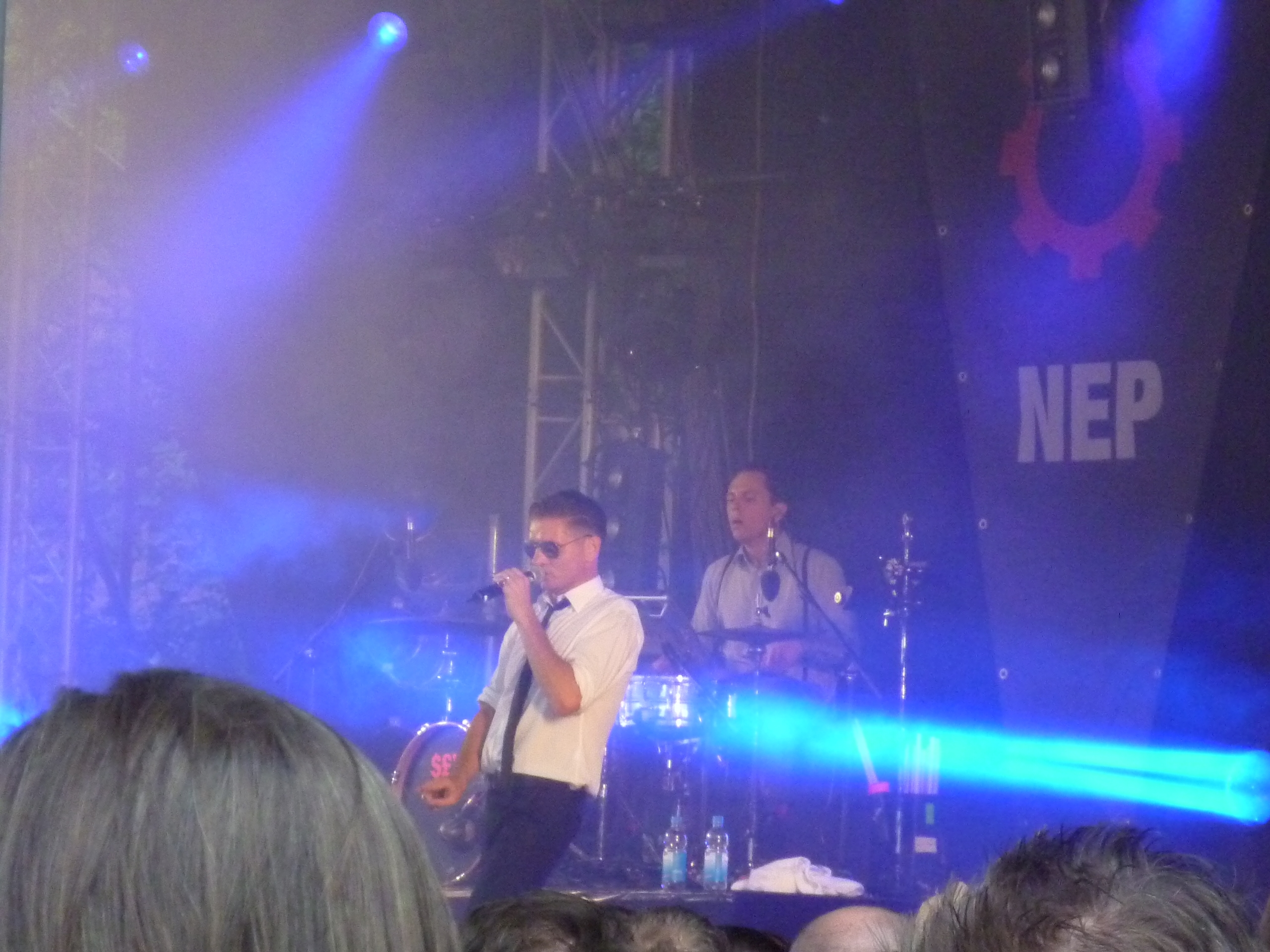 Nitzer Ebb live at the Amphi Festival 2011 in Cologne